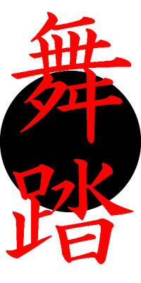 fancy rendering of the word "Butō" (舞踏) in Sino-Japonese kanji script